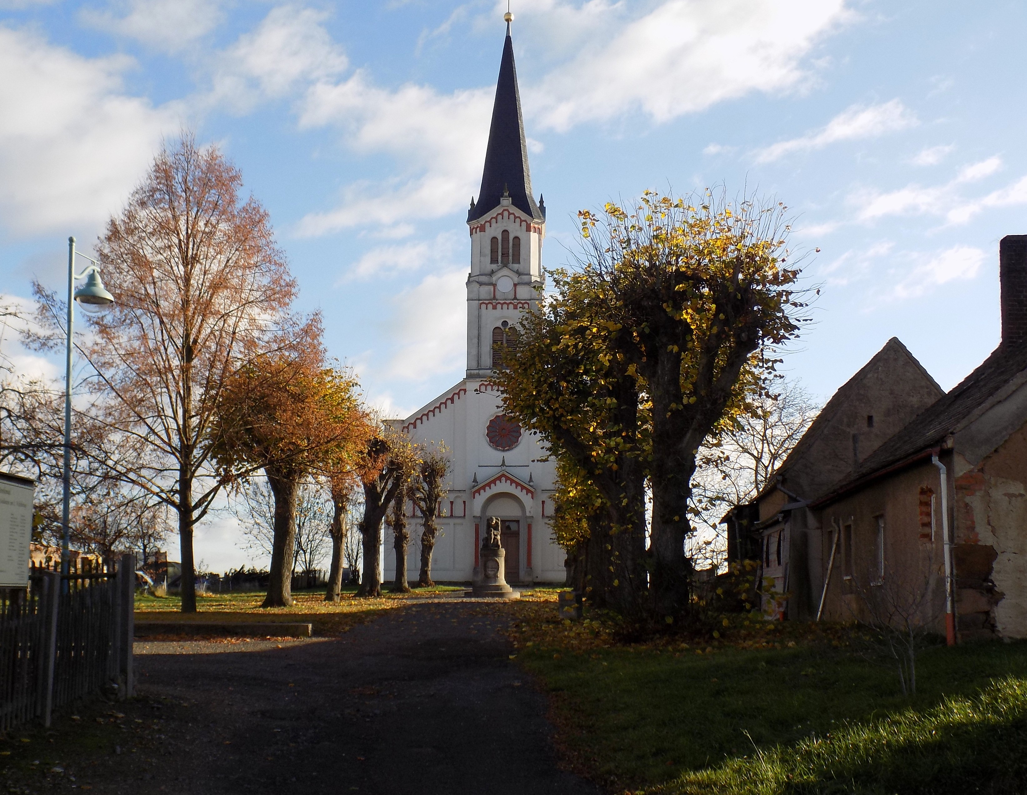 St. Peter's Church in Ragewitz (Grimma, leipzig district, Saxony)